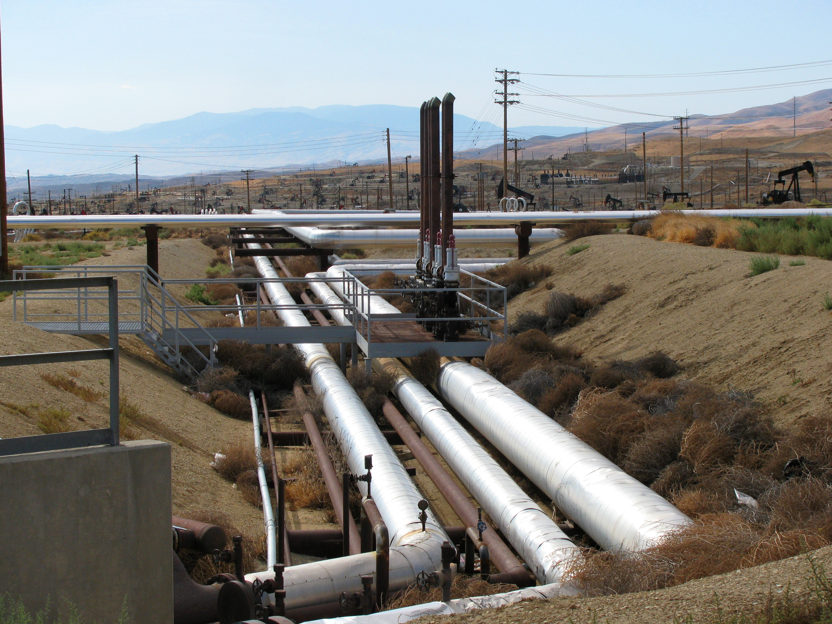 Huge steam pipes coming out of the Sunset Cogen plant to steam the Midway-Sunset Oil Field; note pumping units in the background